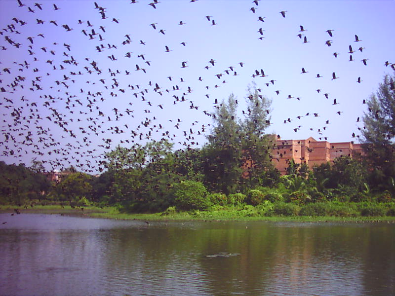 This is a jahangir nagar university.